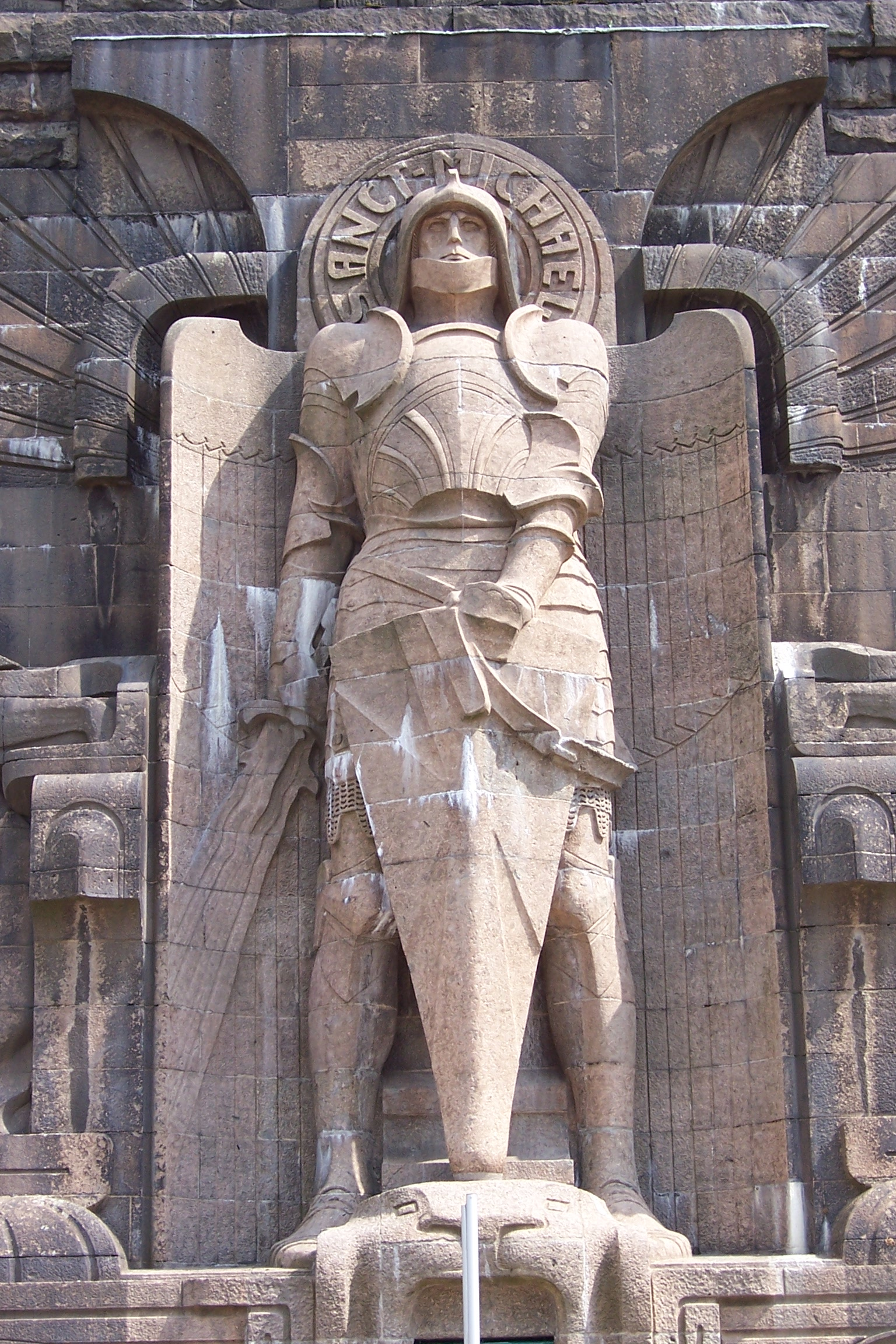 St. Michael, part of the Völkerschlachtdenkmal in Leipzig